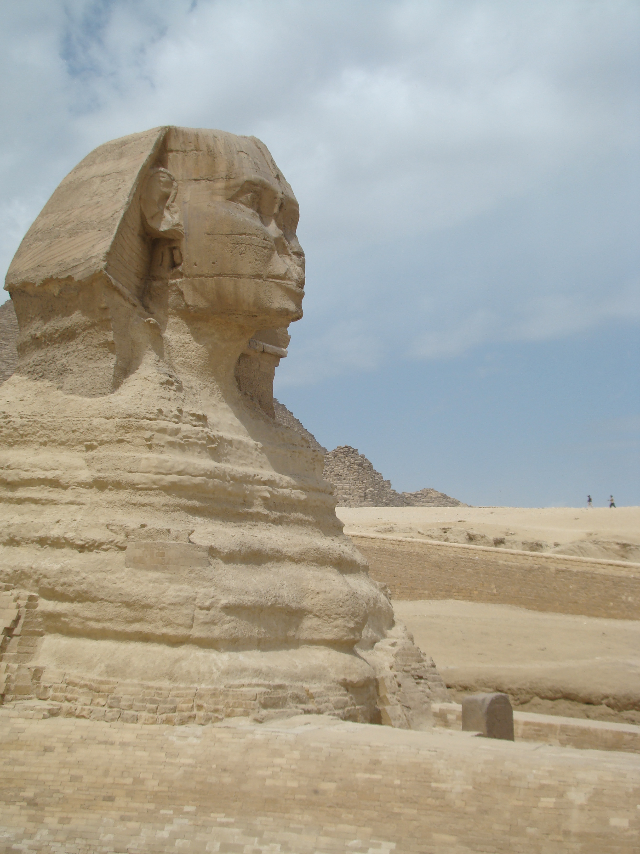 AWIB-ISAW: The Sphinx at Giza (I) The Great Sphinx at Giza is sometimes said to have been built by and modeled after Khafre but this is still up for debate. The Sphinx was carved directly into the bedrock and is surrounded by other structures in different states of ruin. by Iris Fernandez (2009) copyright: 2009 Iris Fernandez (used with permission) photographed place: (Giza) [ Published by the Institute for the Study of the Ancient World as part of the Ancient World Image Bank (AWIB). Further information: [